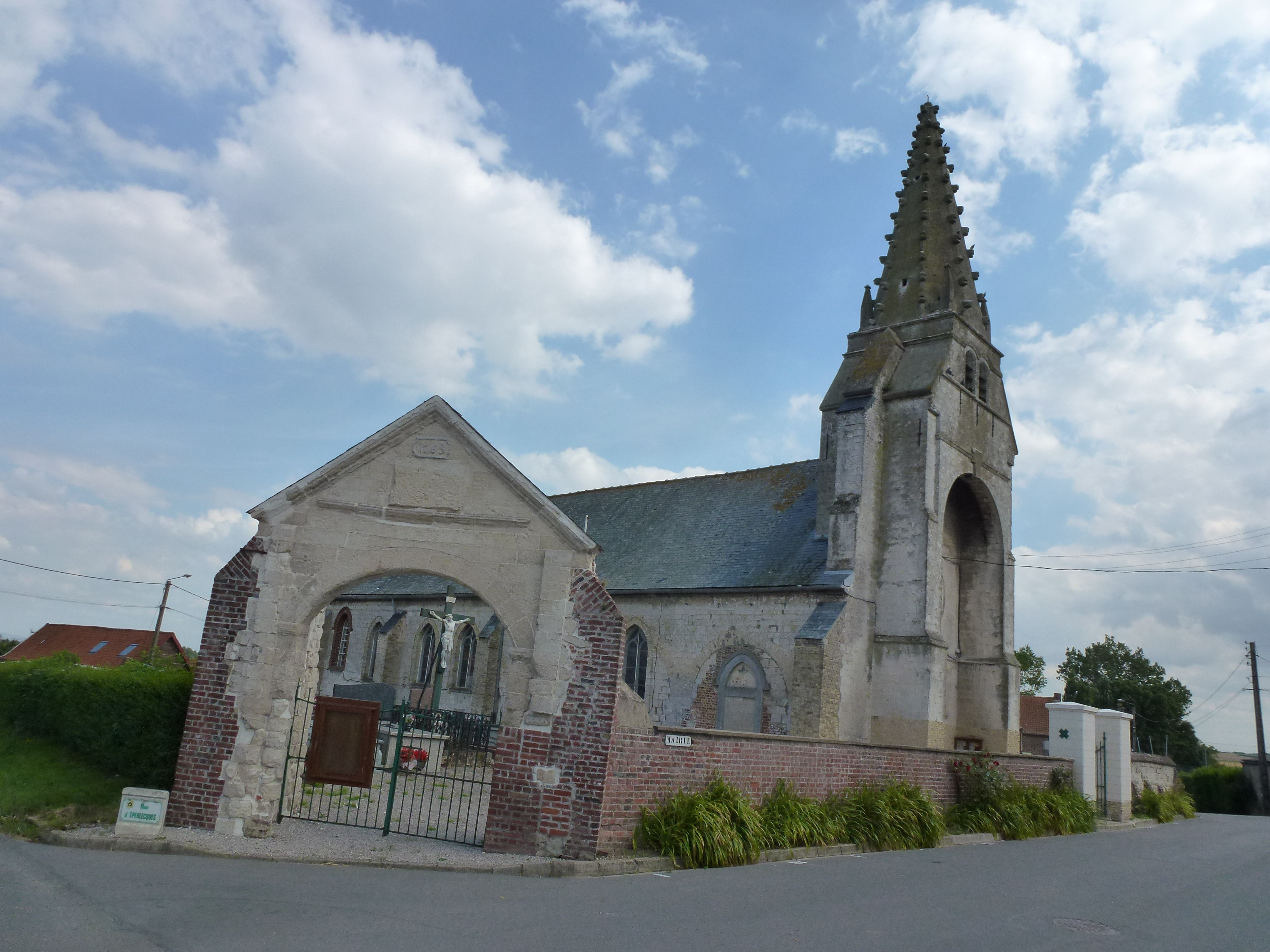 Bayenghem-lès-Éperlecques (Pas-de-Calais) église Saint-Wandrille